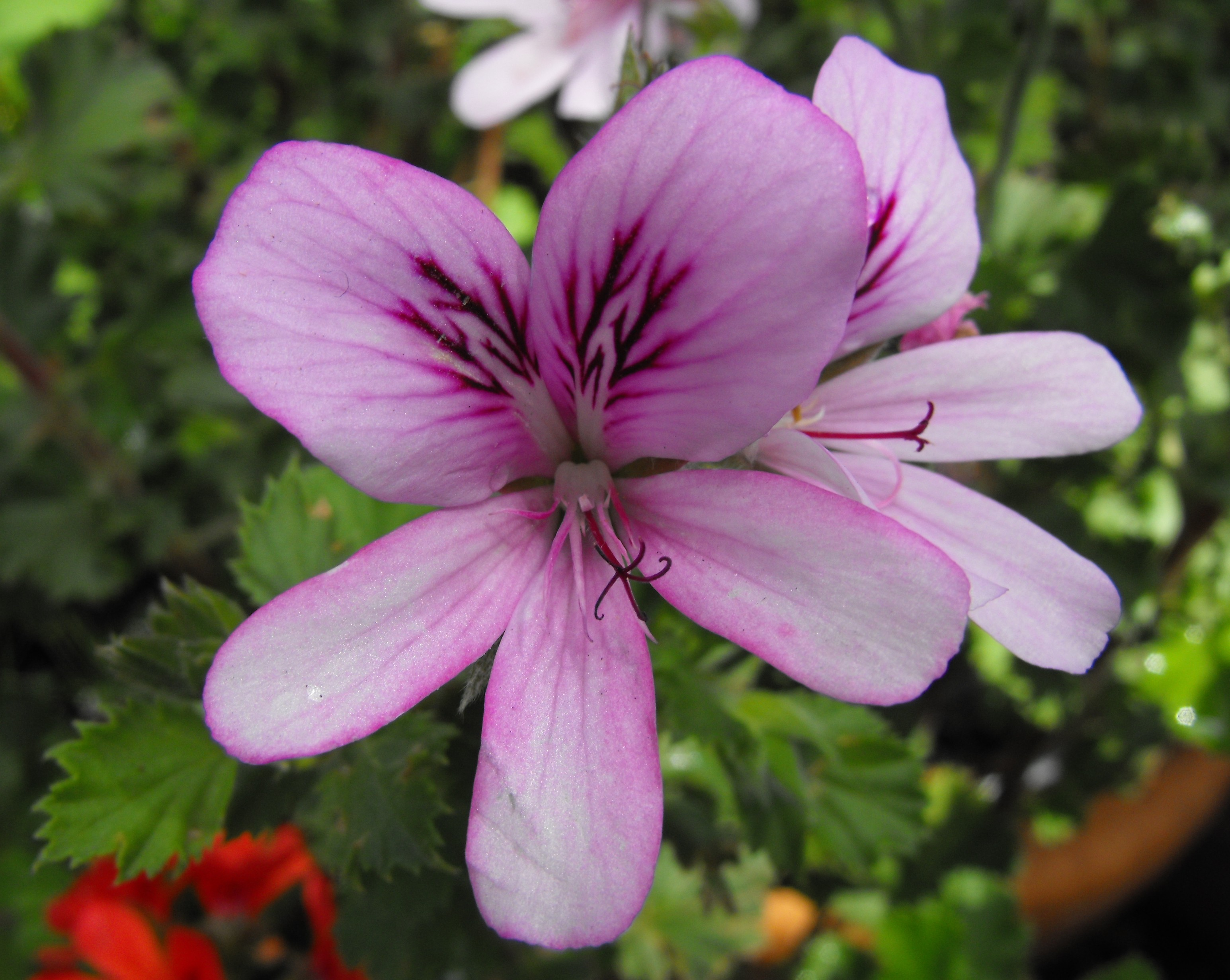 Pelargonium nervosum in the Botanical Building at Balboa Park in San Diego, California, USA. Identified by sign.